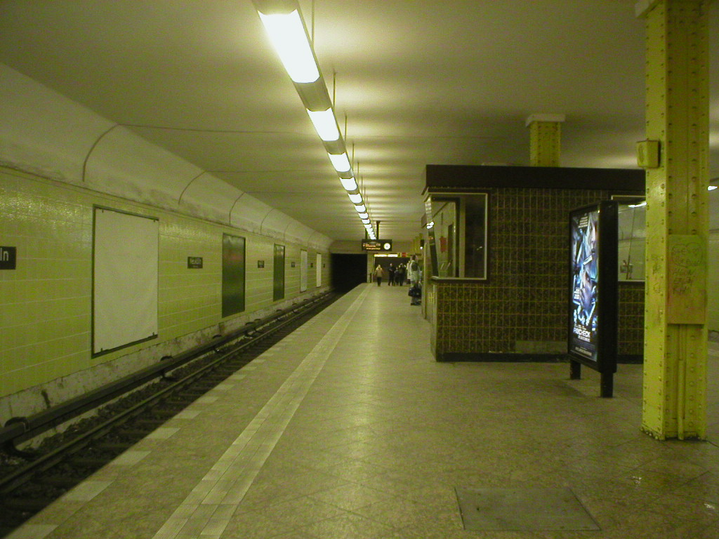 Platform of the Berlin U-Bahn station Neukölln, line U7